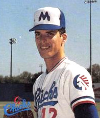 Professional baseball player Jose DeJesus